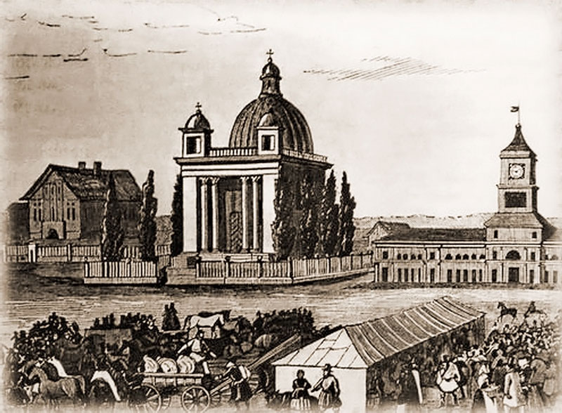 Rynak Square in Homiel